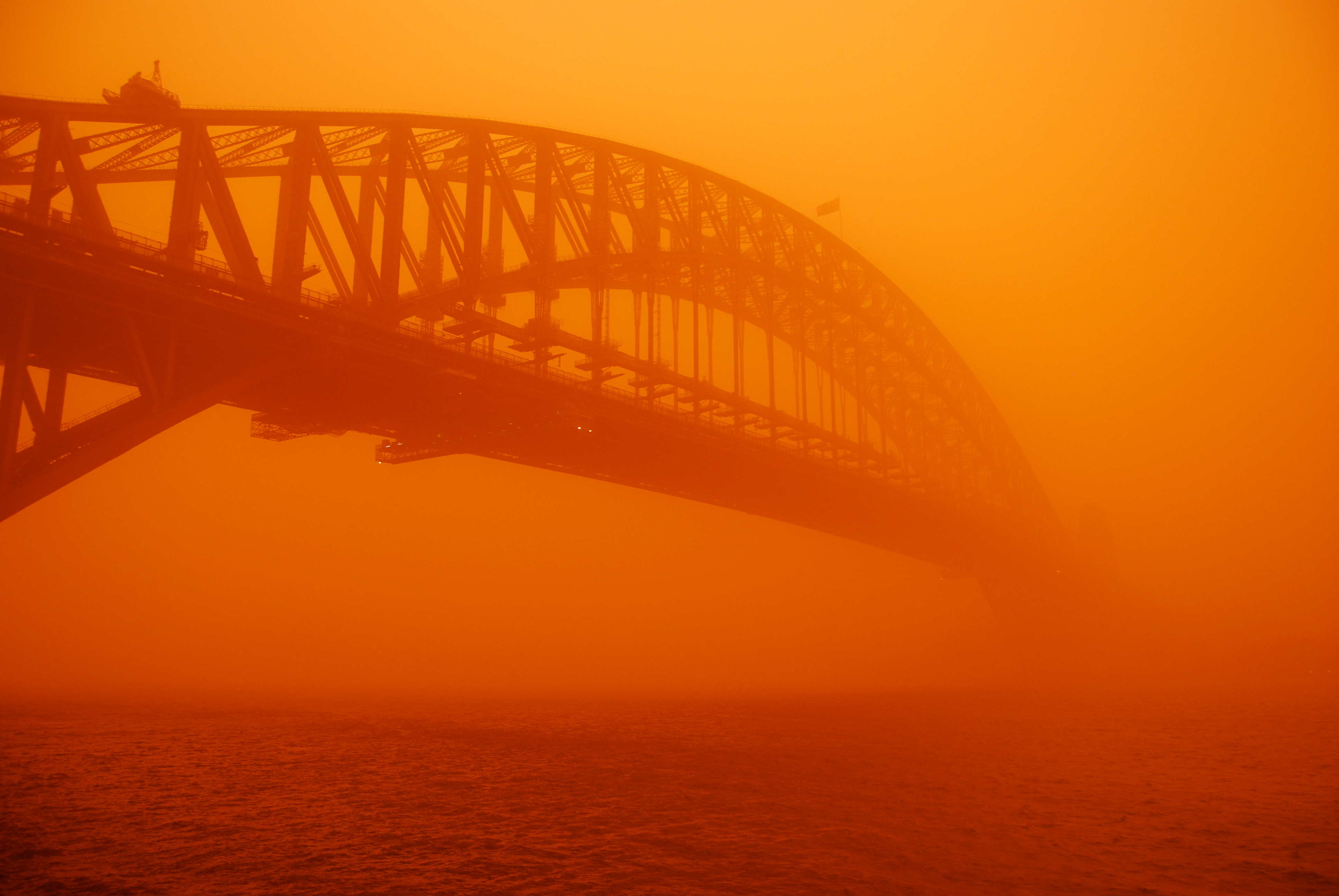 Sydney Harbour Bridge during a red dust storm